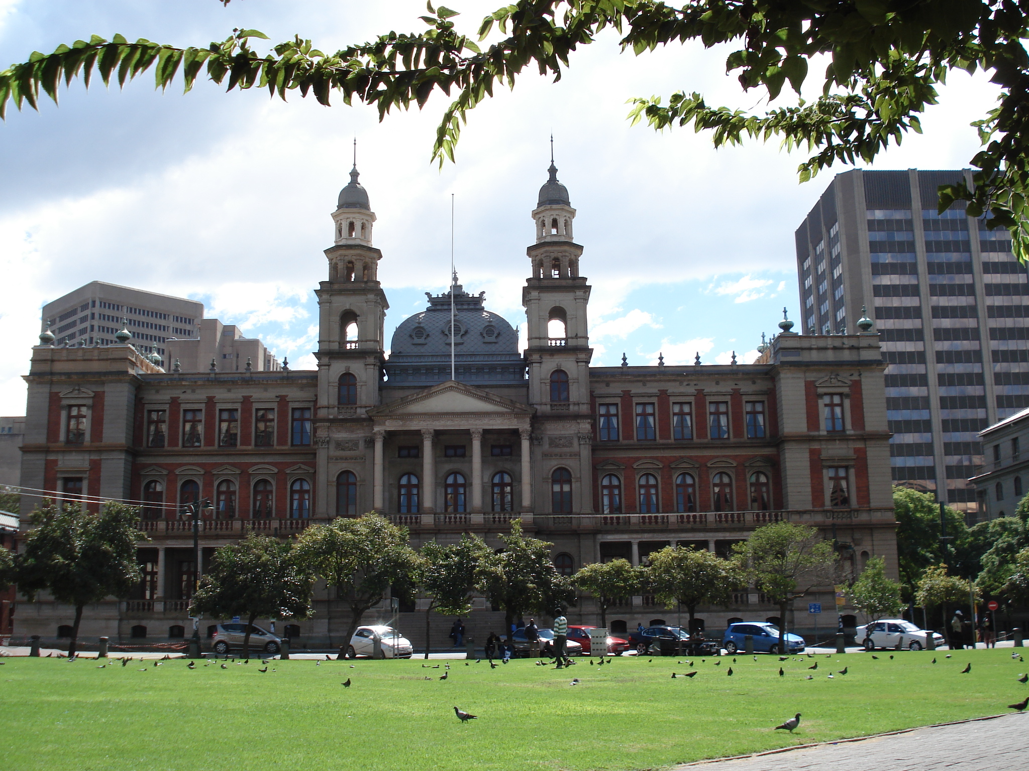 Southern facade of the Palace of Justice, Church Square, Pretoria. Its foundation stone was laid by Paul Kruger in 1897. It is currently the headquarters of the Gauteng Division of the High Court of South Africa. The Rivonia trial where Nelson Mandela, amongst others, was sentenced to life imprisonment was heard here in 1963/4.